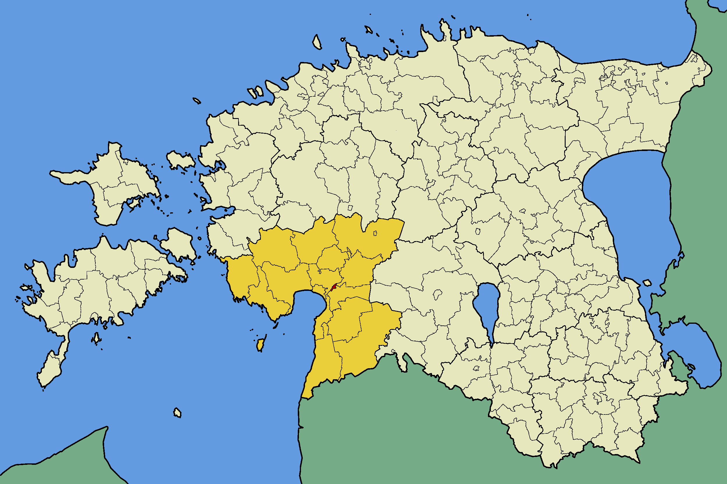 Map of Estonia with borders of municipalities (parishes). Pärnu county and Sindi town municipality emphasized.